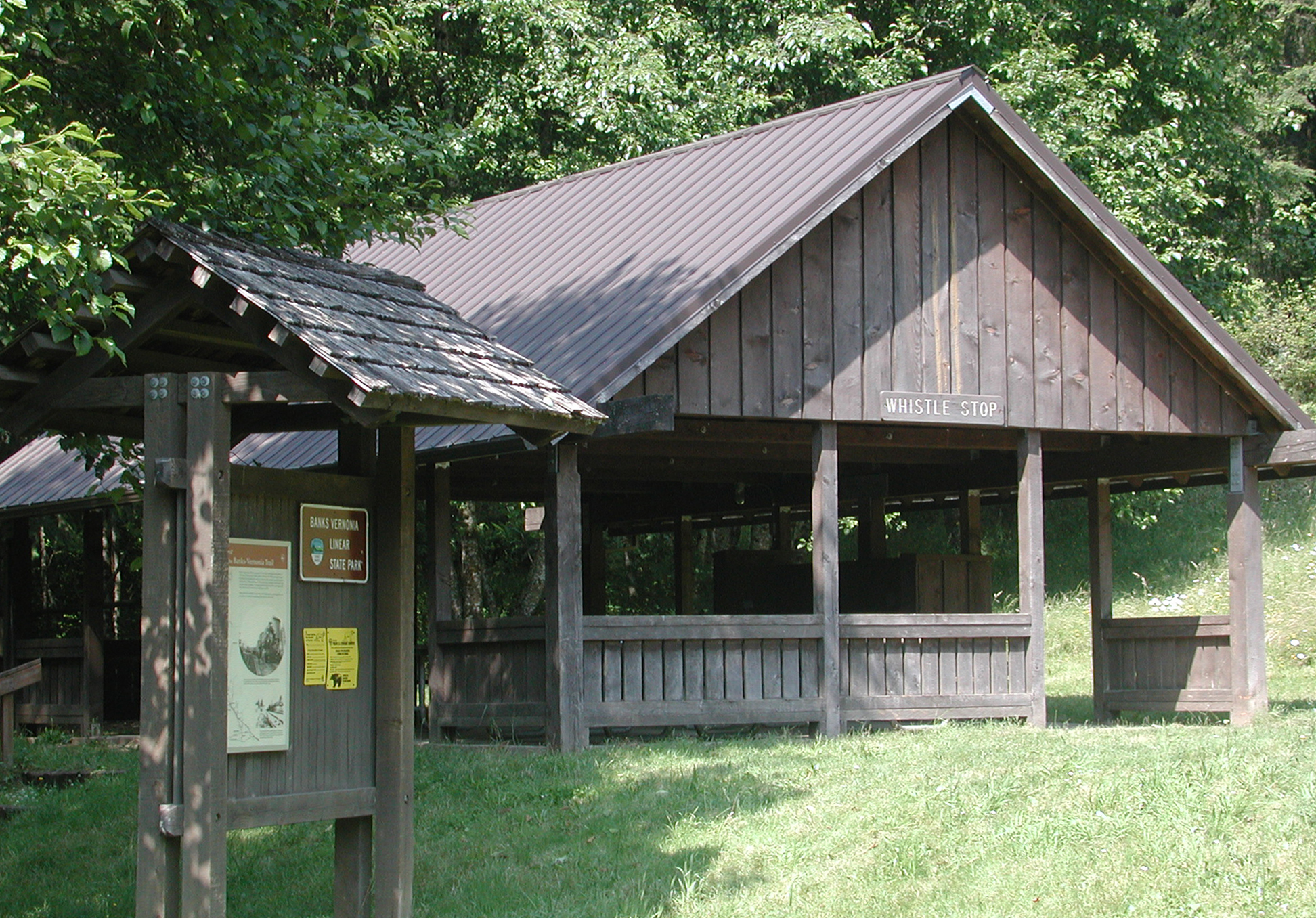 Shelter at the Buxton Trailhead of the Banks–Vernonia State Trail in the U.S. state of Oregon. Buxton was a whistle stop along the early 20th-century rail line that was converted to a rail trail in the 1990s.